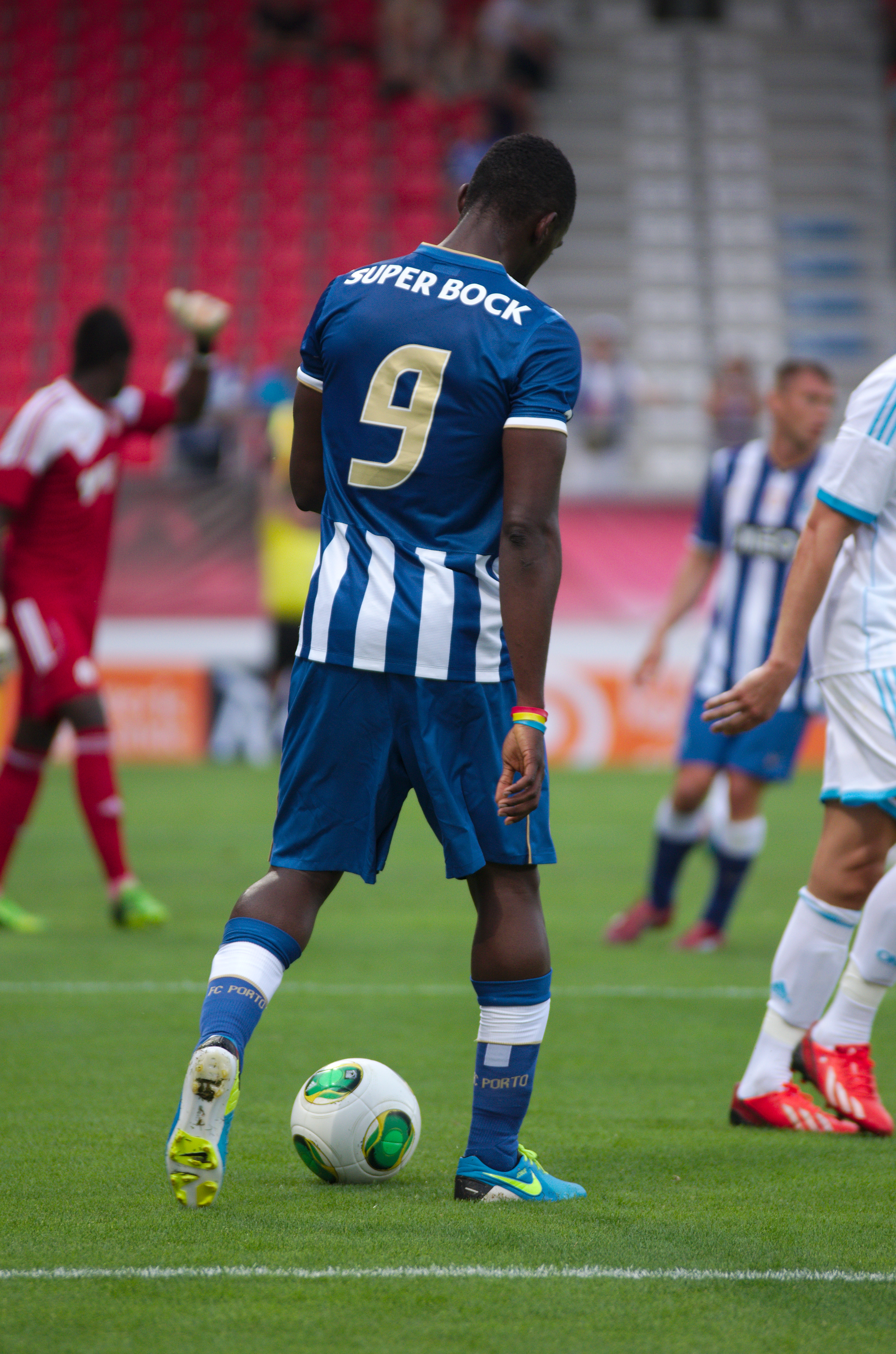 Valais Cup 2013 - OM-FC Porto - 20130713 - Jackson